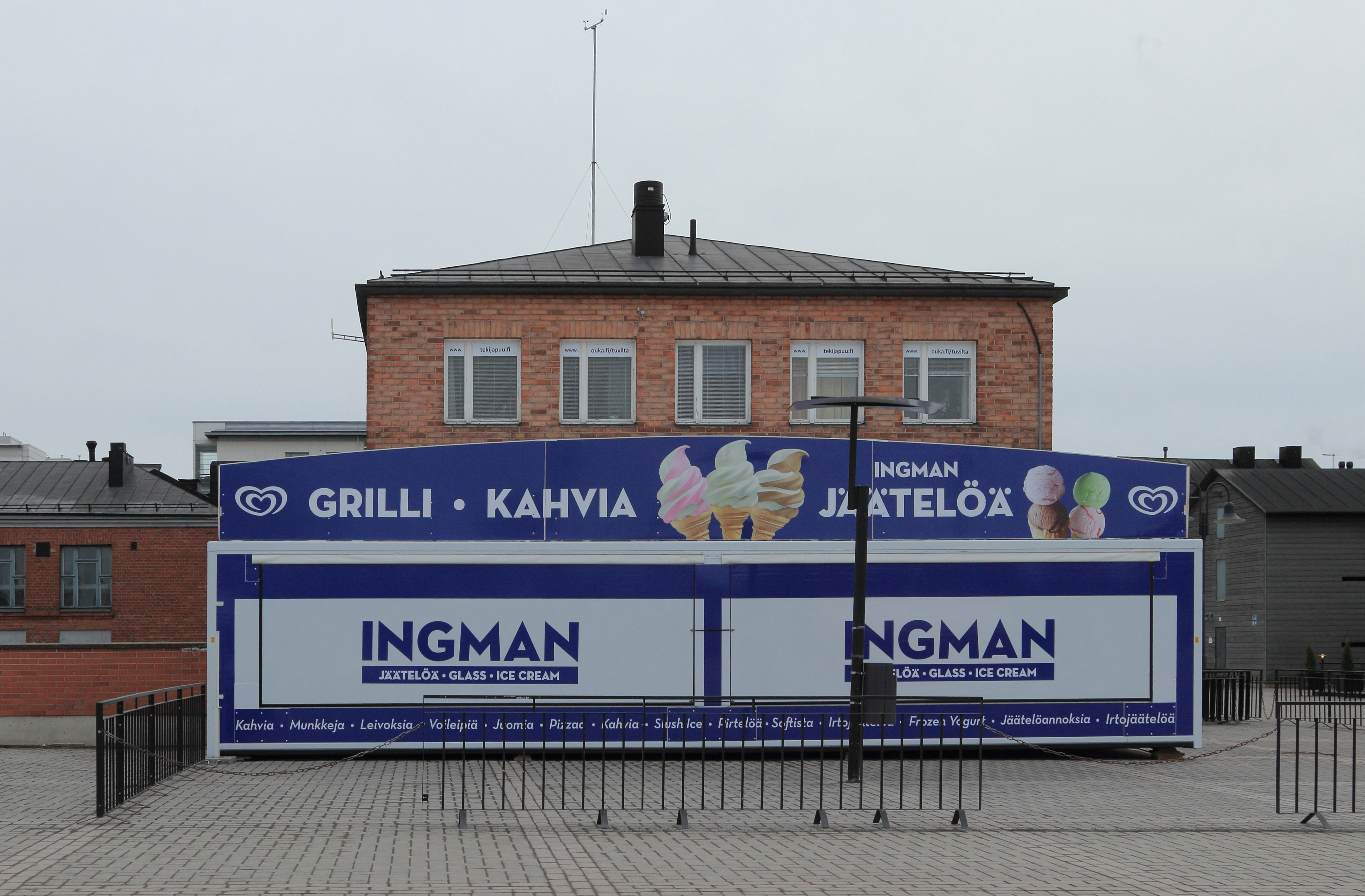 Grillroom/Café/Ice cream kiosk at the Oulu Market Square.